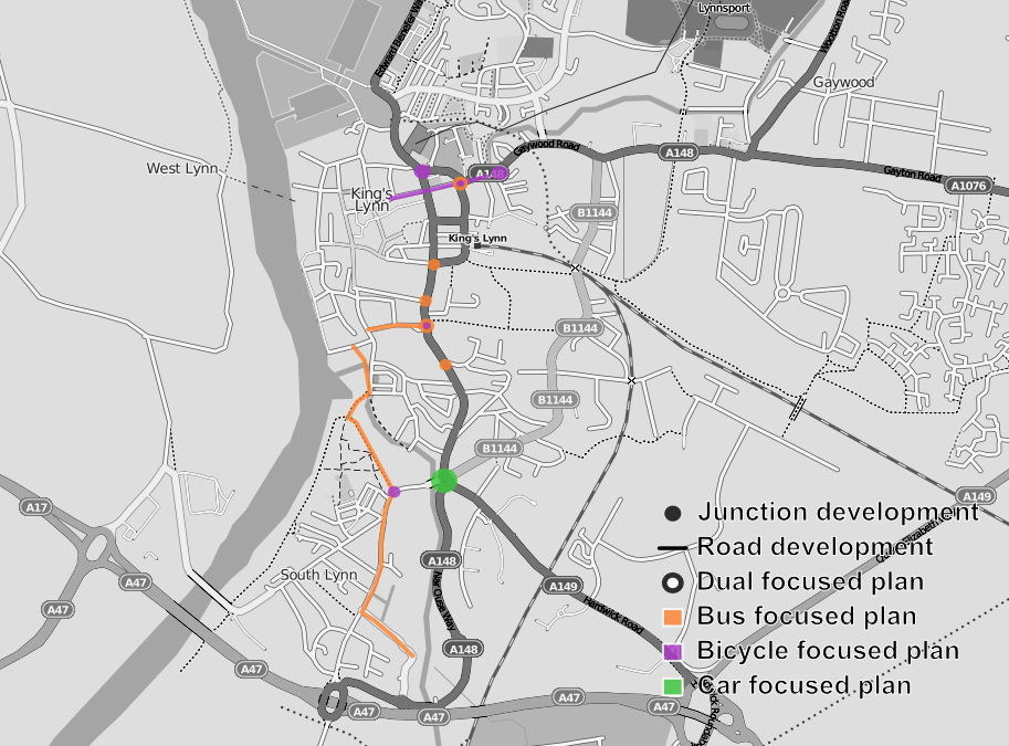 A map showing the planned work under the Kings Lynn CIF bid due to start construction in mid/late 2010.